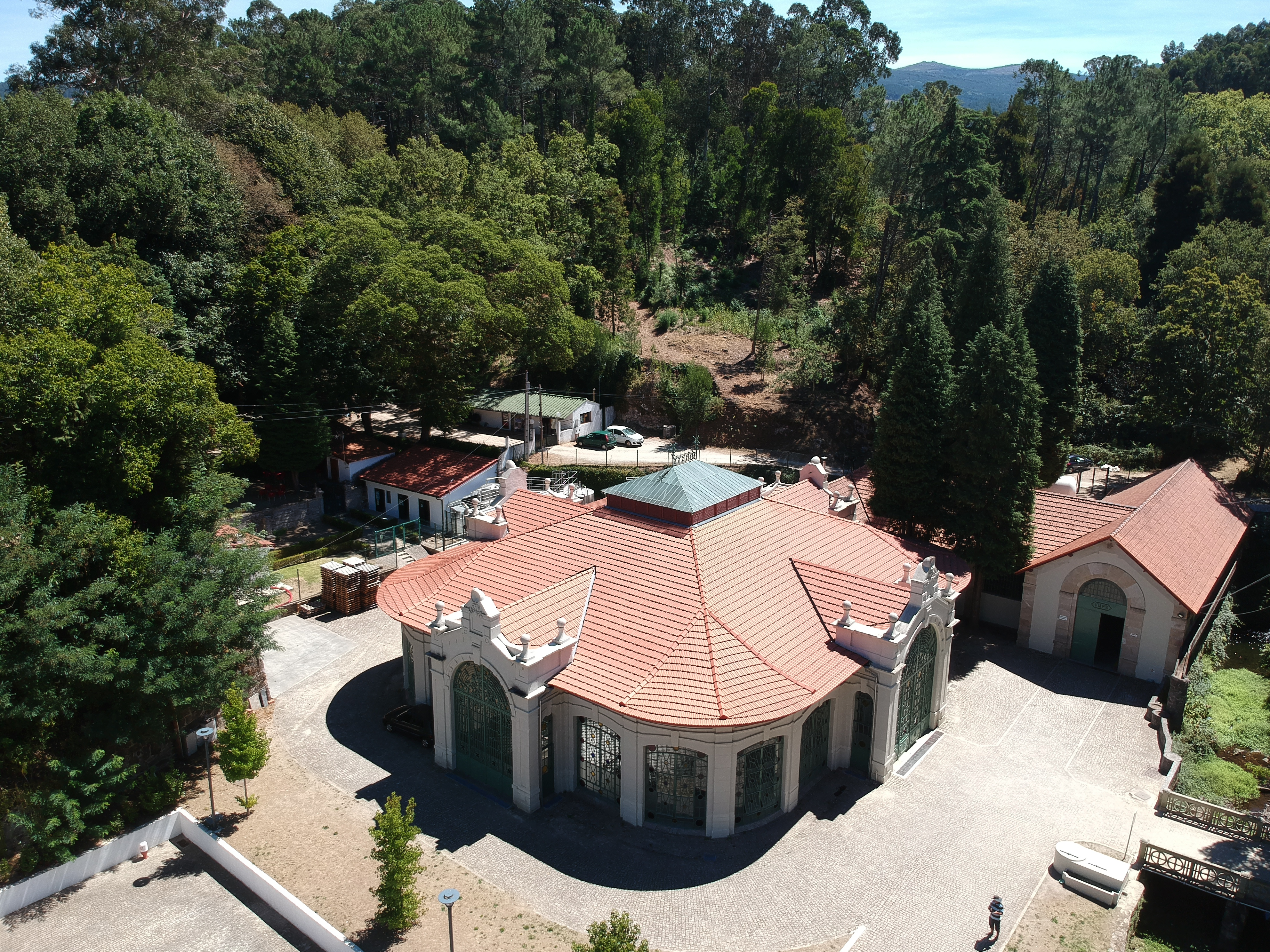 Termas de Melgaço, Portugal.